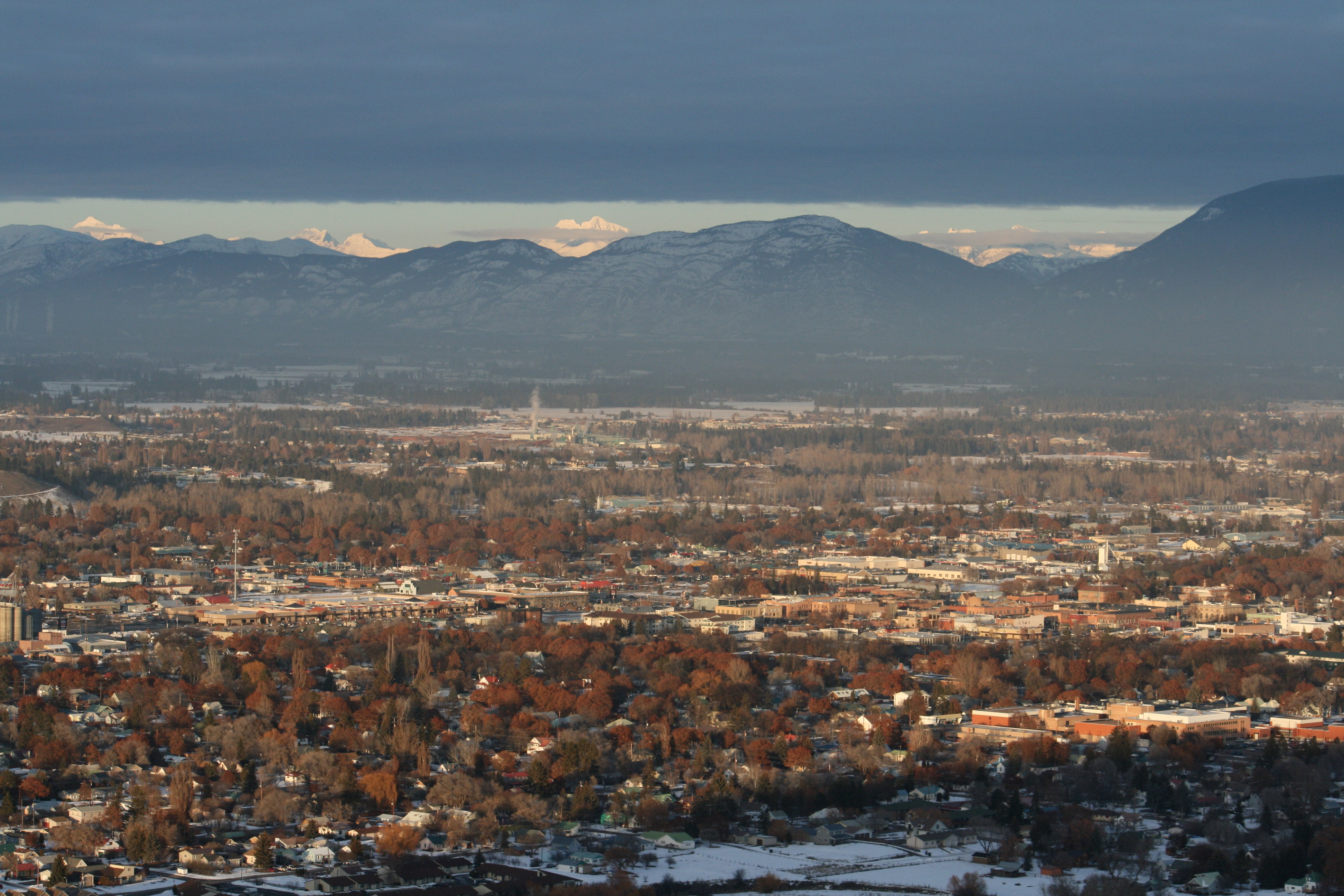 Kalispell, Montana taken from Lone Pine State Park looking NE across the Flathead Valley to the peaks inside Glacier National Park